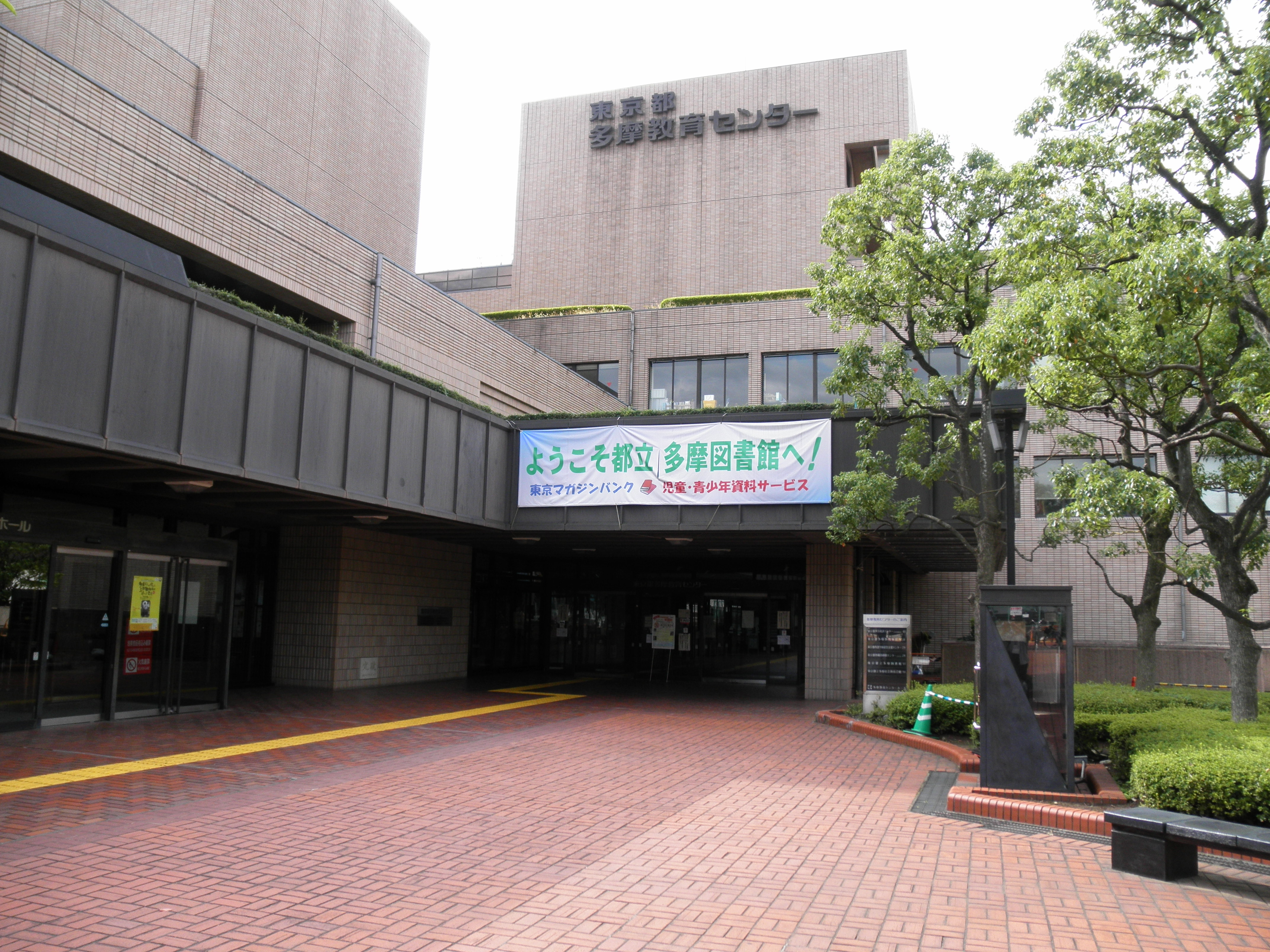 Tokyo Metropolitan Tama Library